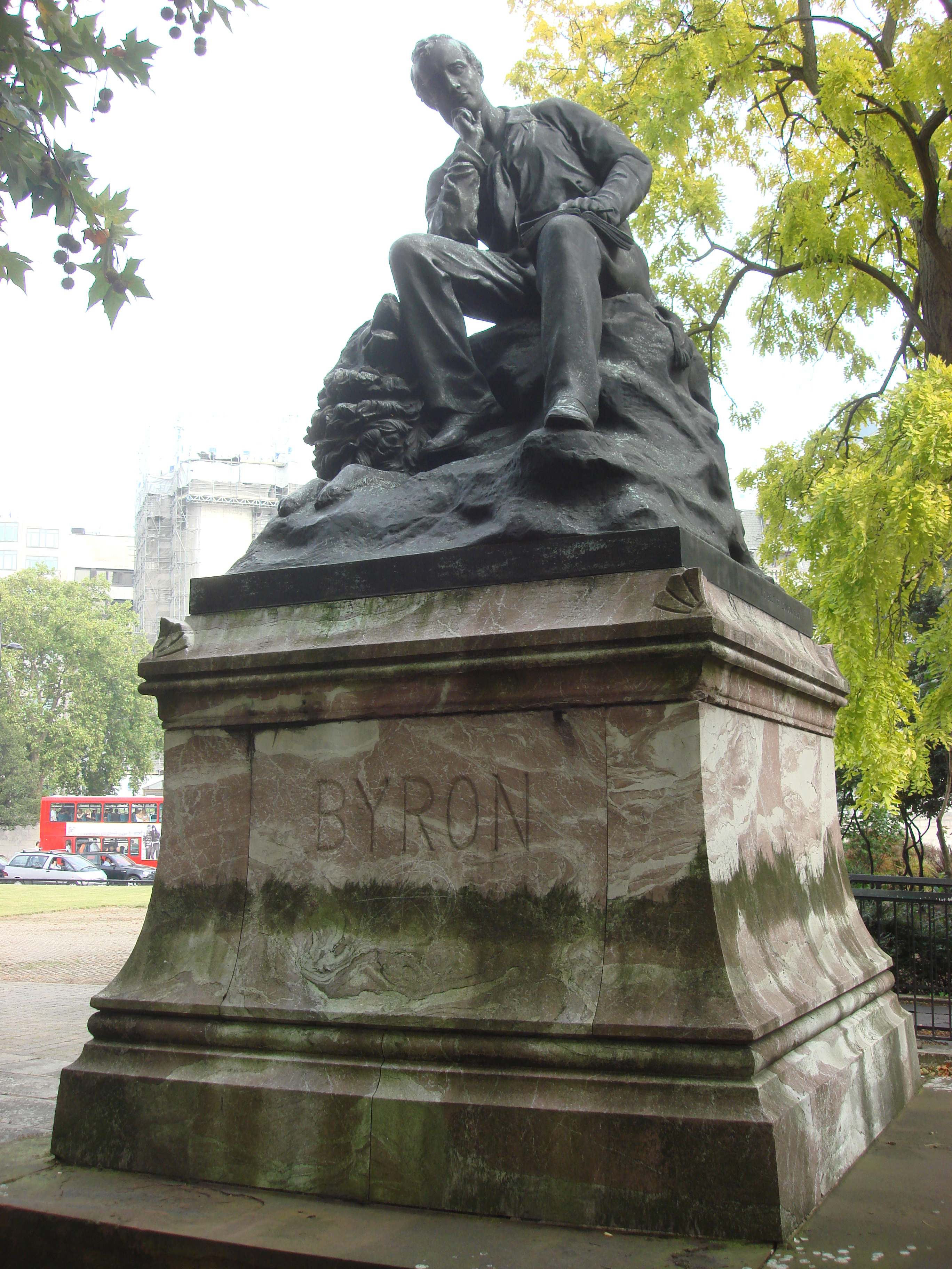 Byron Statue in the central reservation of Park Lane